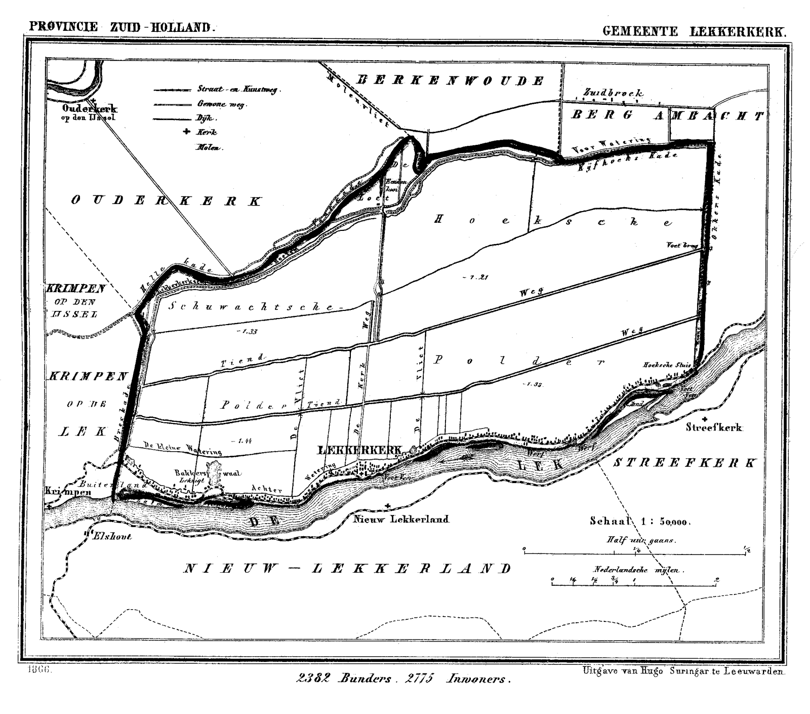 Historic map of Lekkerkerk (now municipality Nederlek), South Holland, the Netherlands